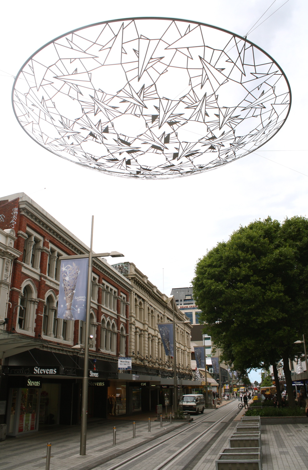 The former Press Building in Cashel Street. Behind it is the Whitcoulls building. The sky lens was installed in December 2009.